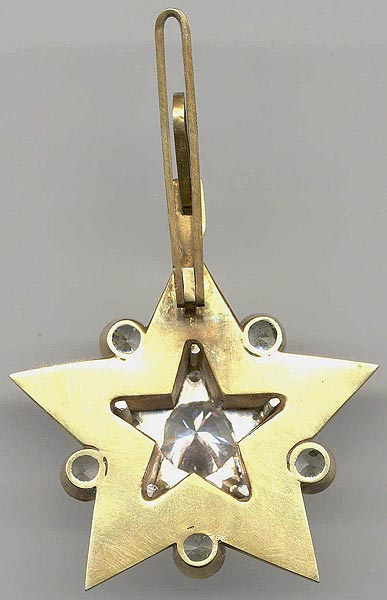 Russian rank insignia, here “Star of the Marshal – big” (OF10) reverse for: Marshal of the Soviet Union 1940 – 1992 Admiral of the fleet of the Soviet Union since 1955 and Marshal of the Russian Federation since 1993.